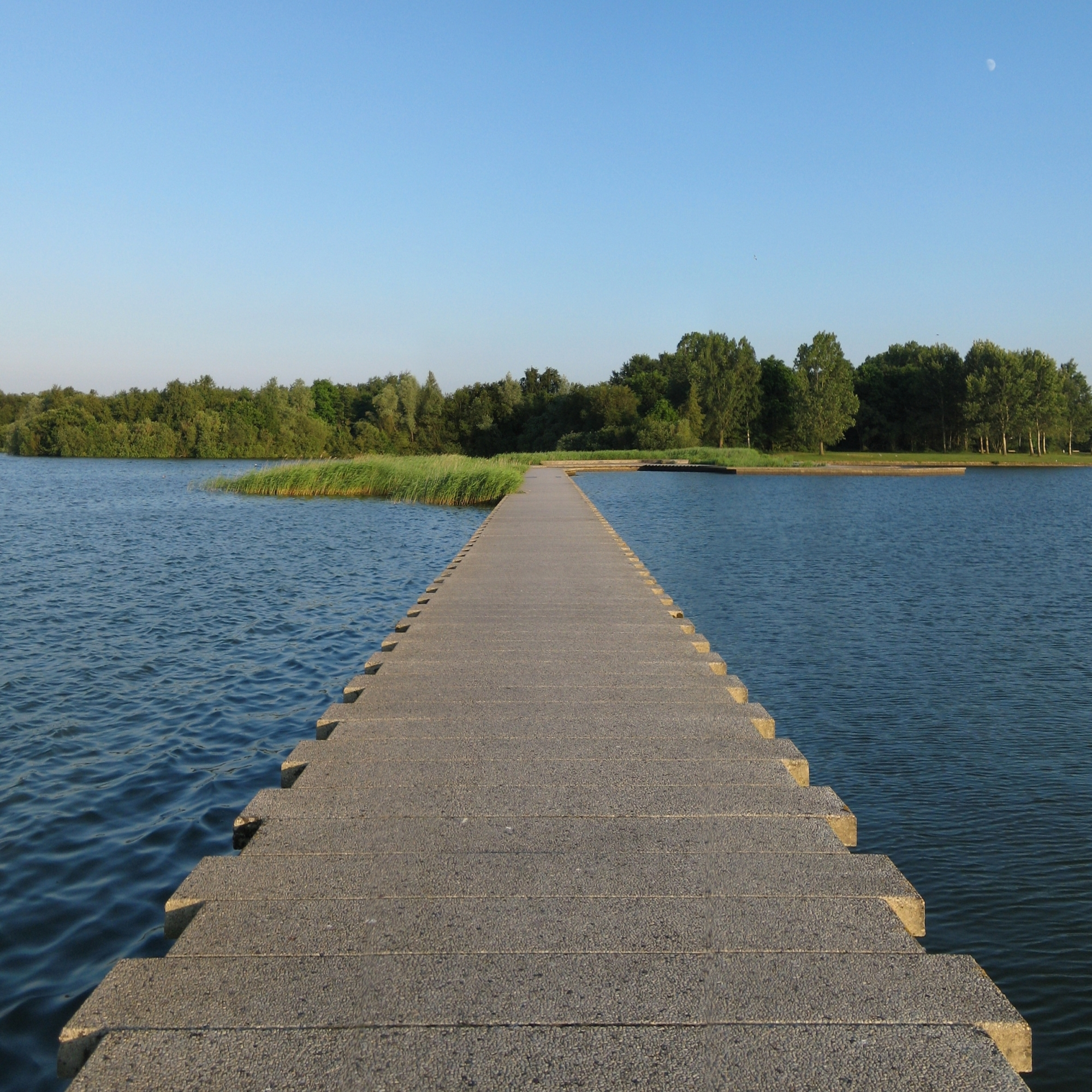 Dam in the Hoornse Plas south of the Dutch city of Groningen.